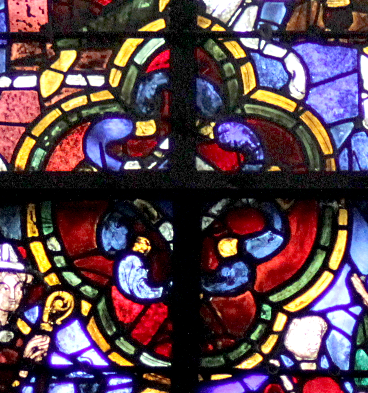 Bay 18 of Chartres cathedral : Life of saint Thomas Becket.